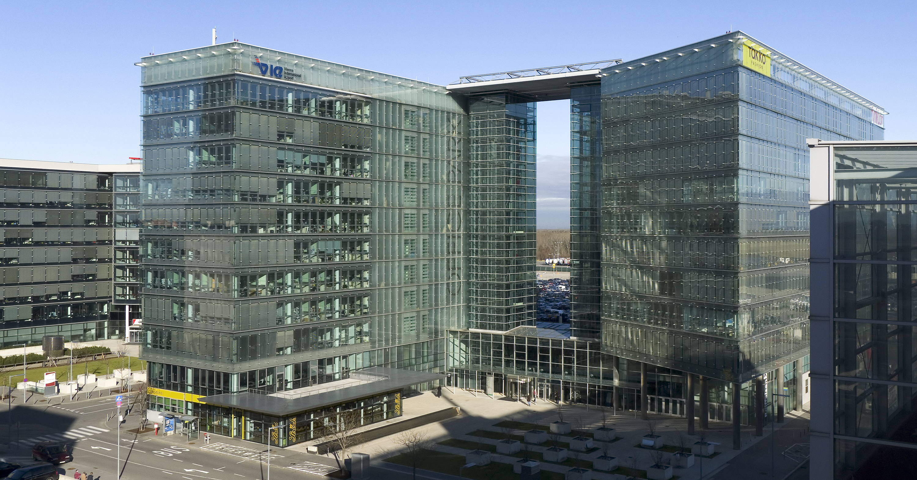 Office Park 1 of Vienna Airport